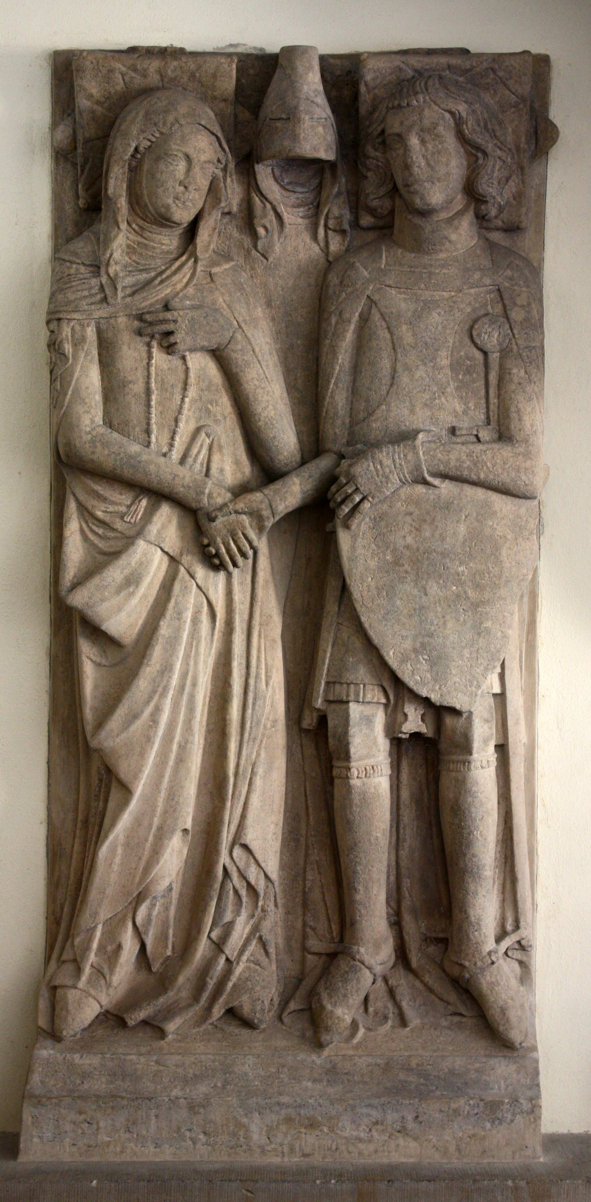 This photo of Lower Silesian Voivodeship was taken during Wikiexpedition 2013 set up by Wikimedia Polska Association.You can see all photographs in category Wikiekspedycja 2013.